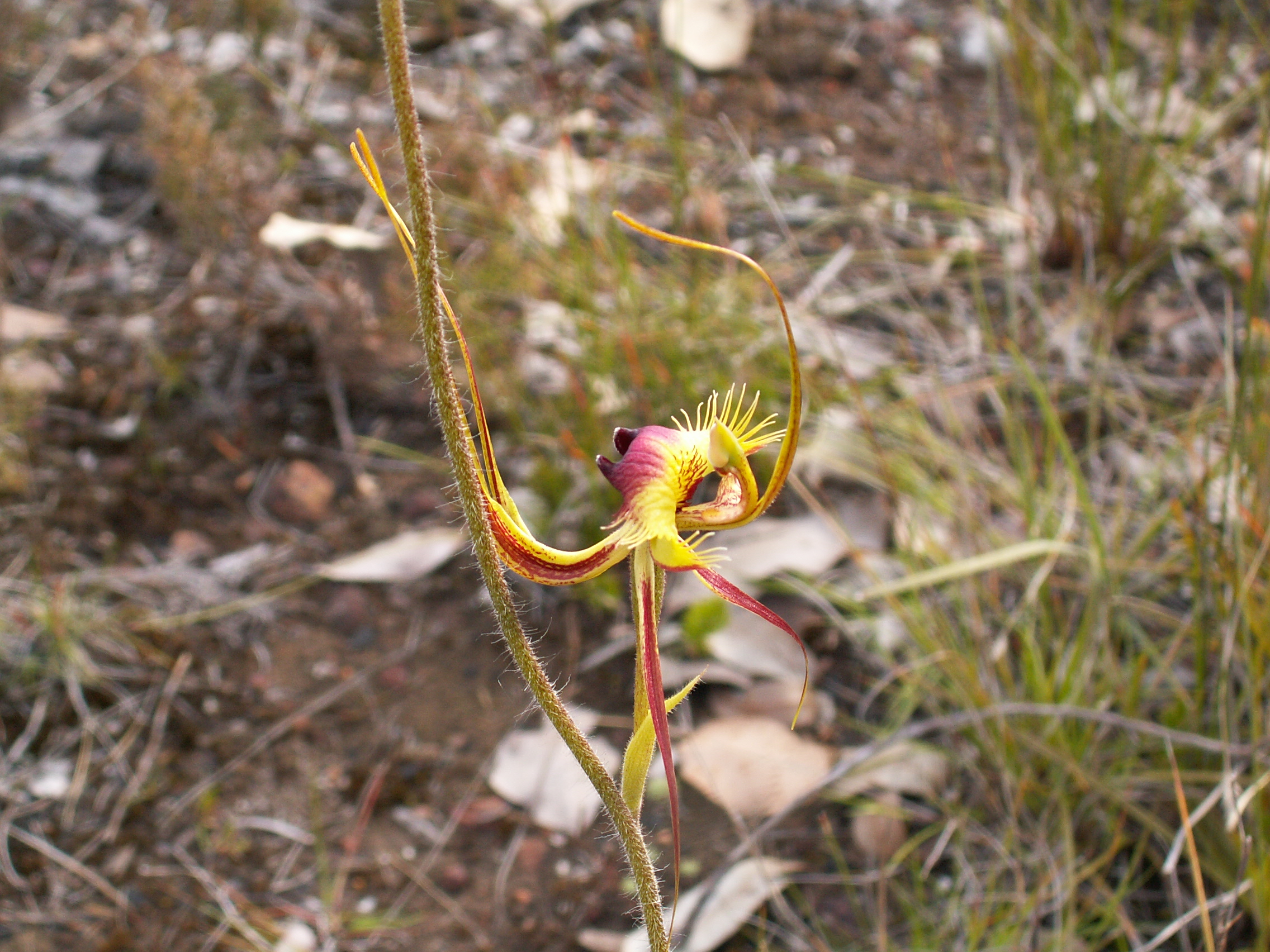 Near Mount Barker (side view)